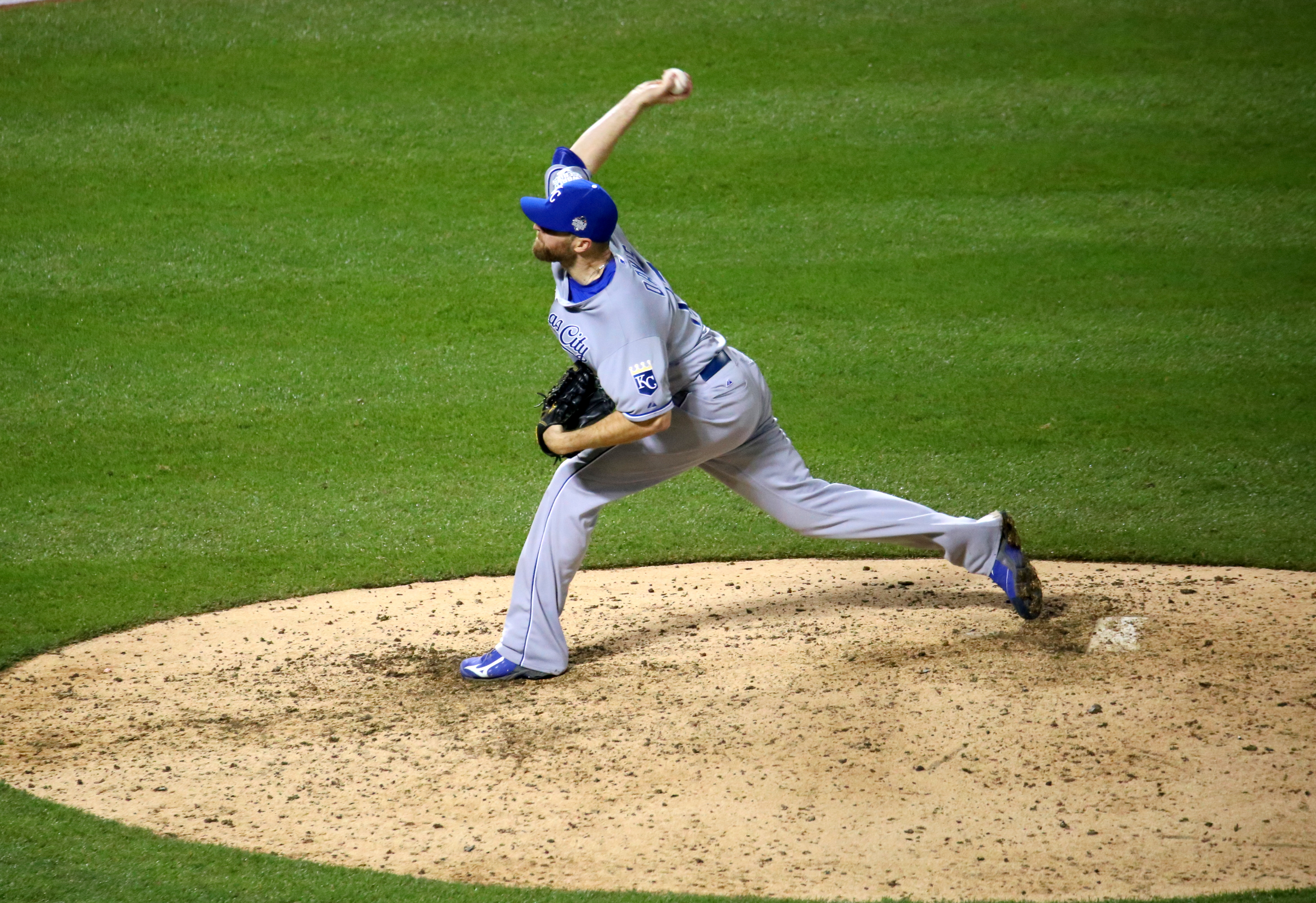 Royals closer Wade Davis finishes off #WorldSeries Game 5.